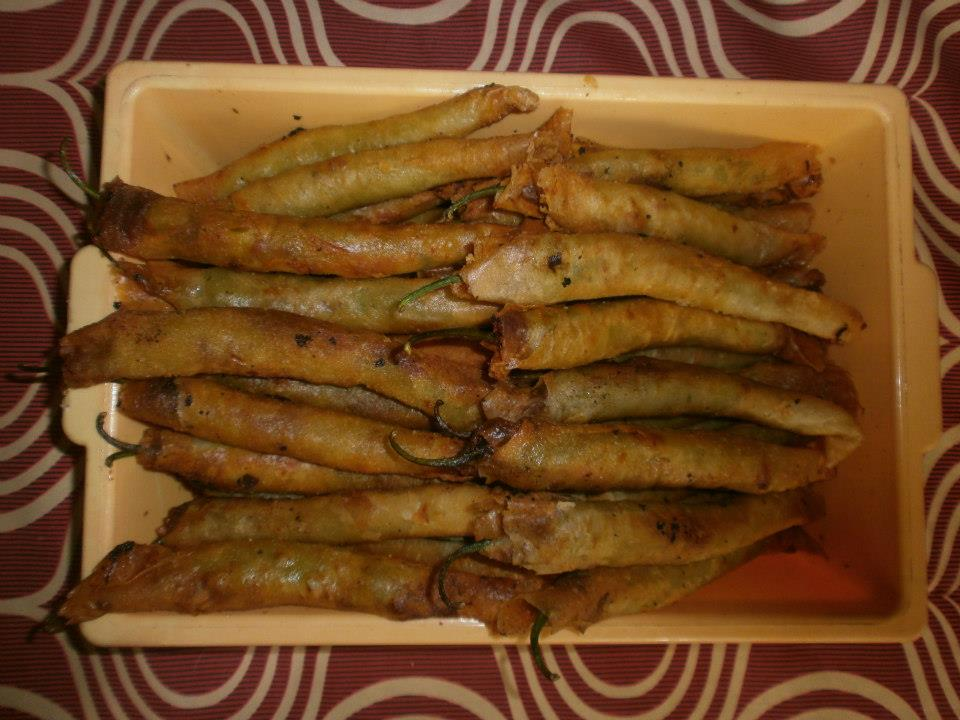 Siling Shanghai is a Filipino food mixed up with porkmeat, hot green chilli and wrapped with lumpia wrapper.